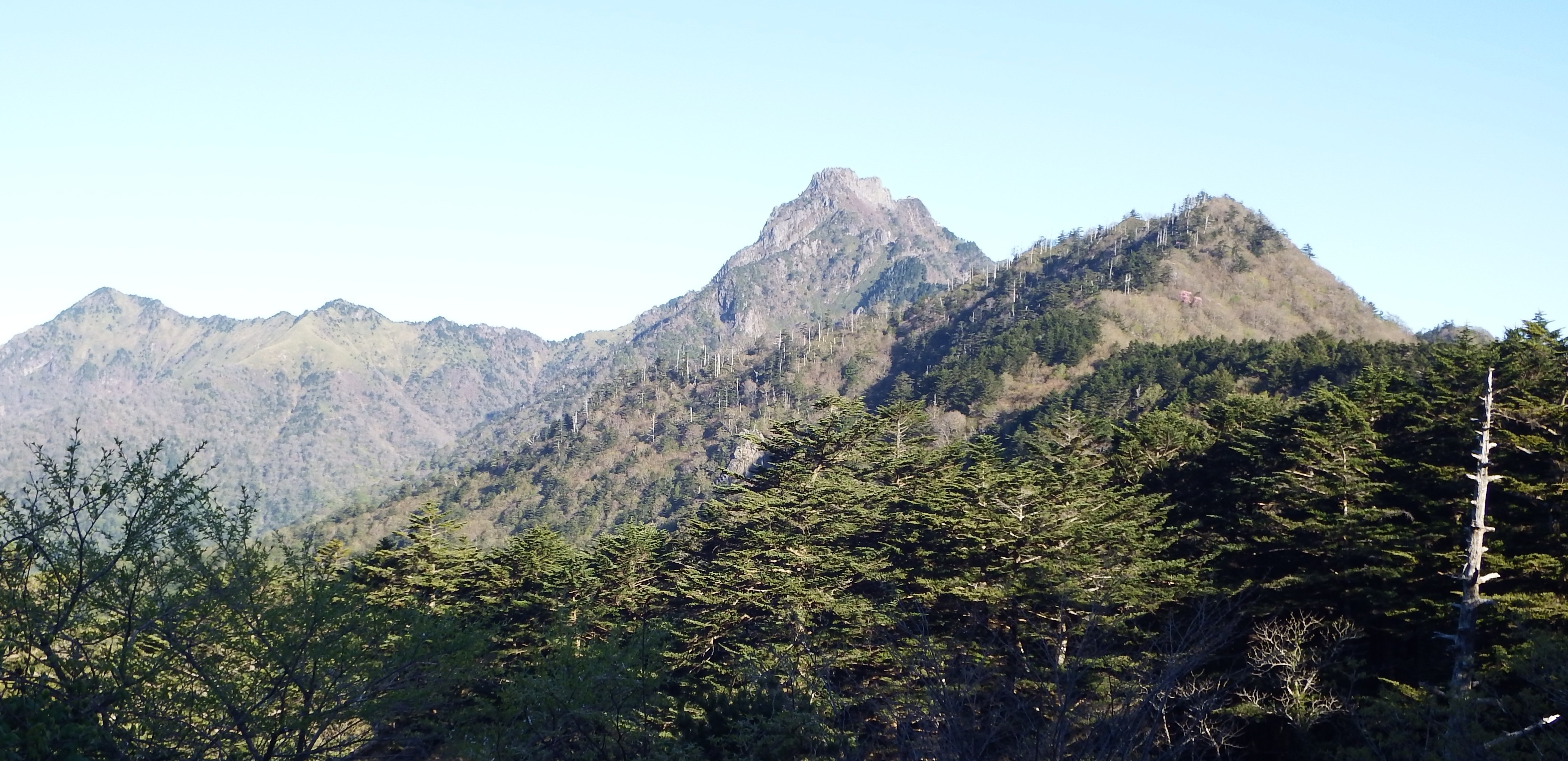 Mount Ishizuchi as seen from the ESE.